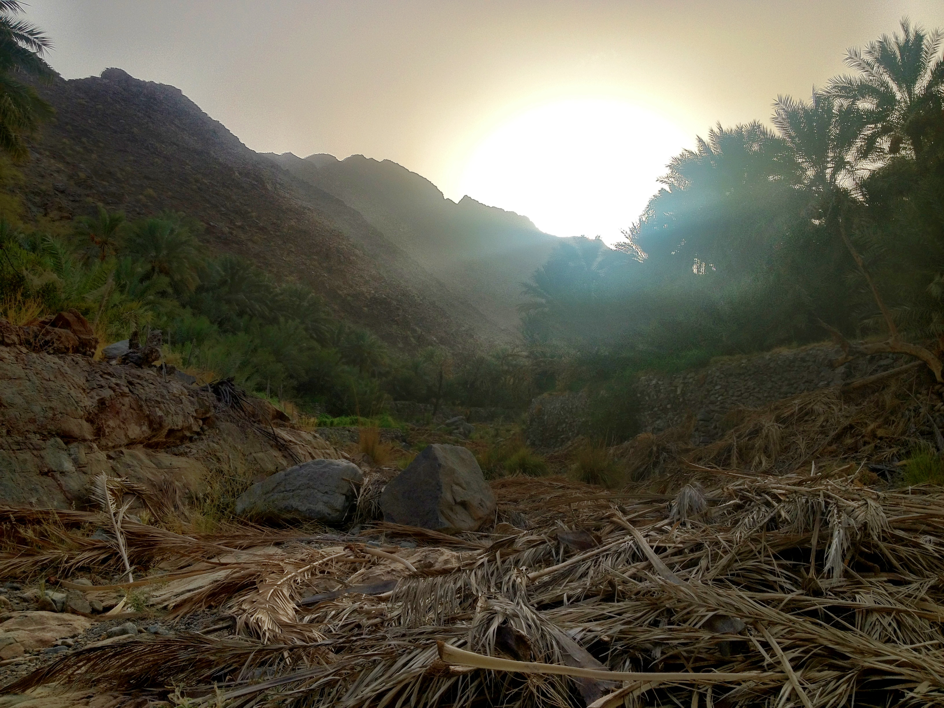 View from wadi fayyd in shinas